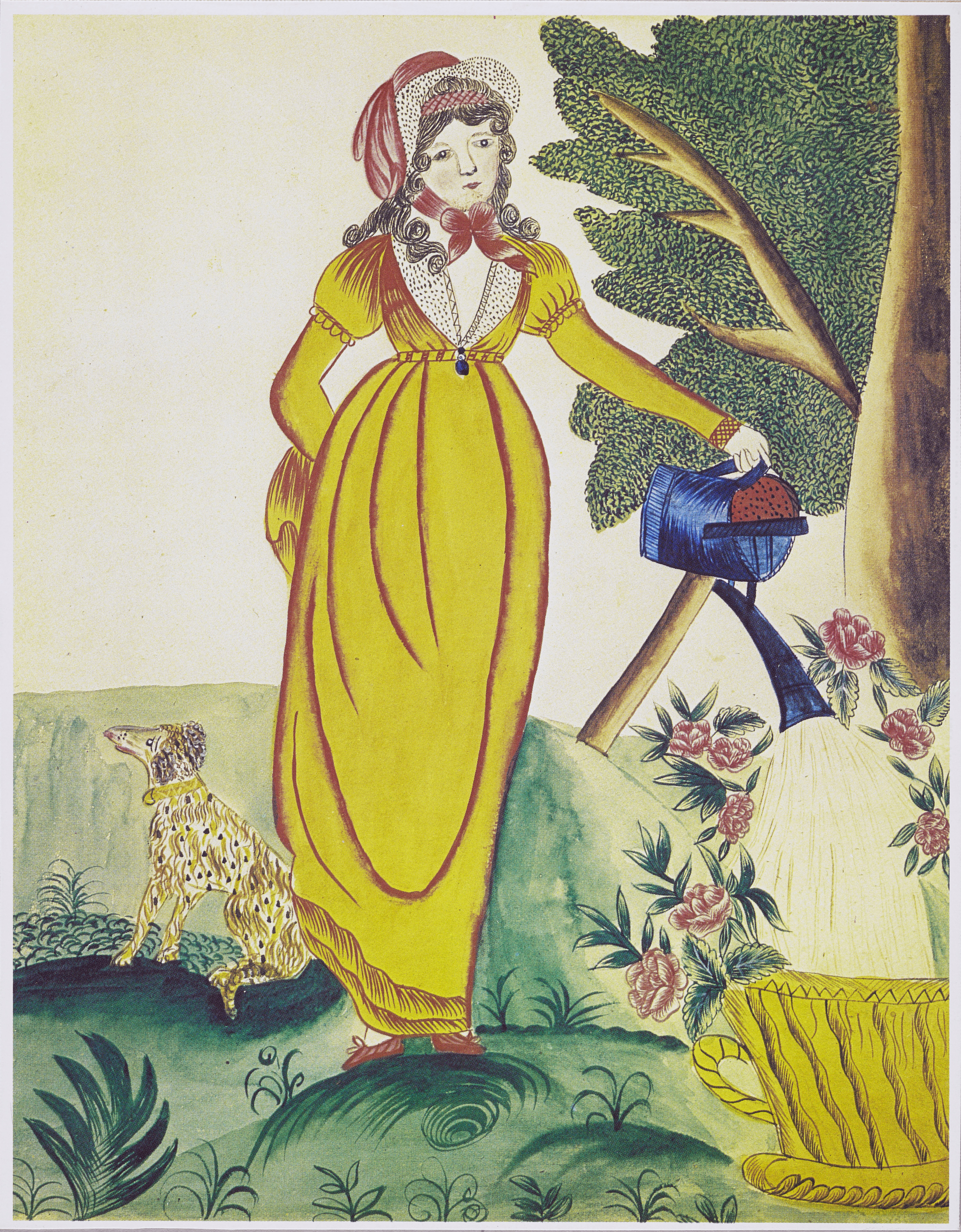 Elizabeth Glaser, Lady in Yellow Dress Watering Rose, ca. 1830